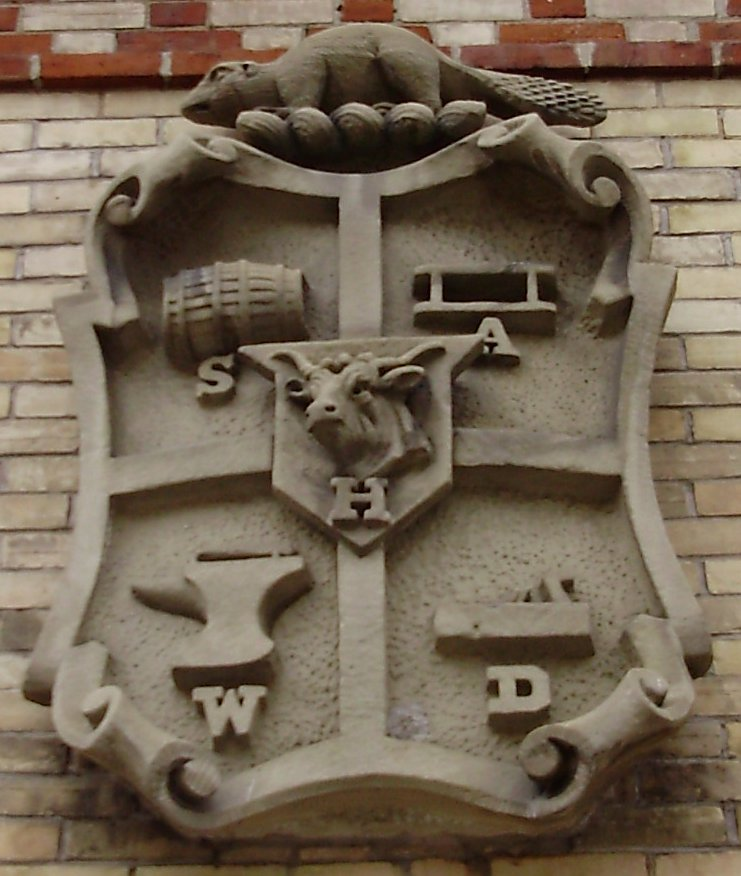 The coat of arms of the former village of Yorkville, currently a neighbourhood of Toronto.